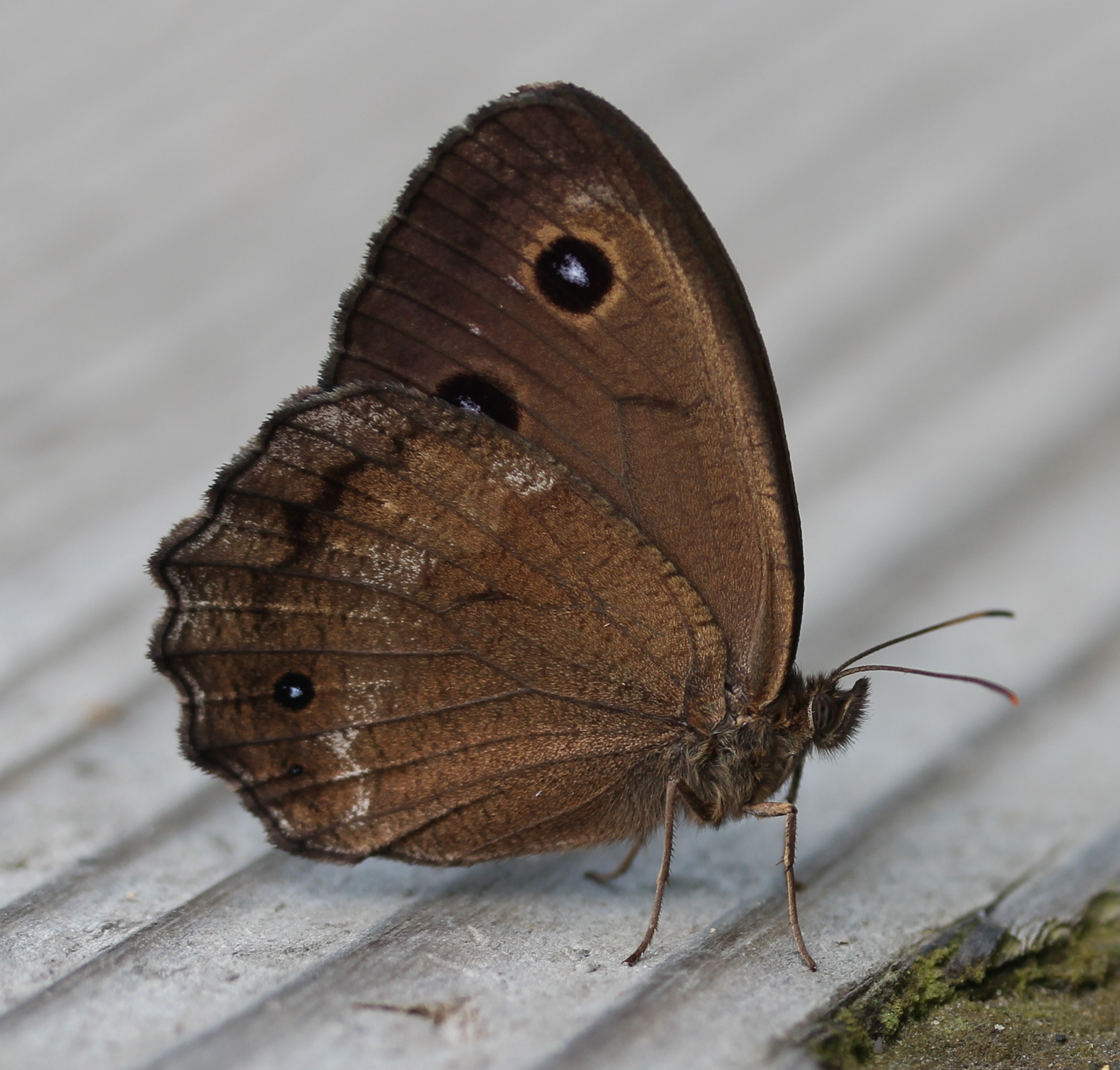 Minois dryas bipunctata, male in Kasugai, Aichi prefecture, Japan.